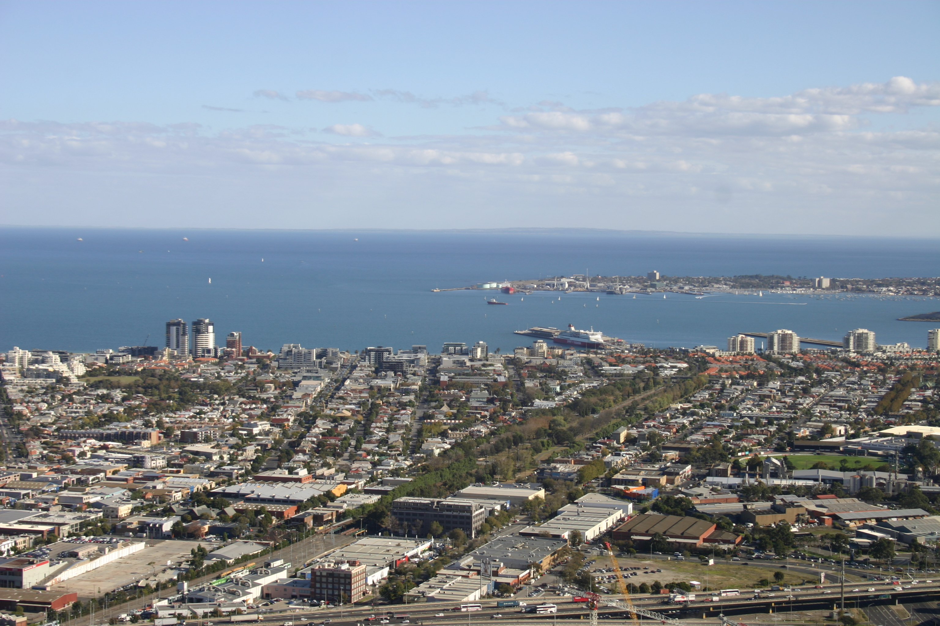 Melbourne and Port Phillip Bay viewed southeast from the Melbourne Observation Deck in the Rialto Towers on April 18, 2007. The red ferry boat in the port is the Spirit of Tasmania II.